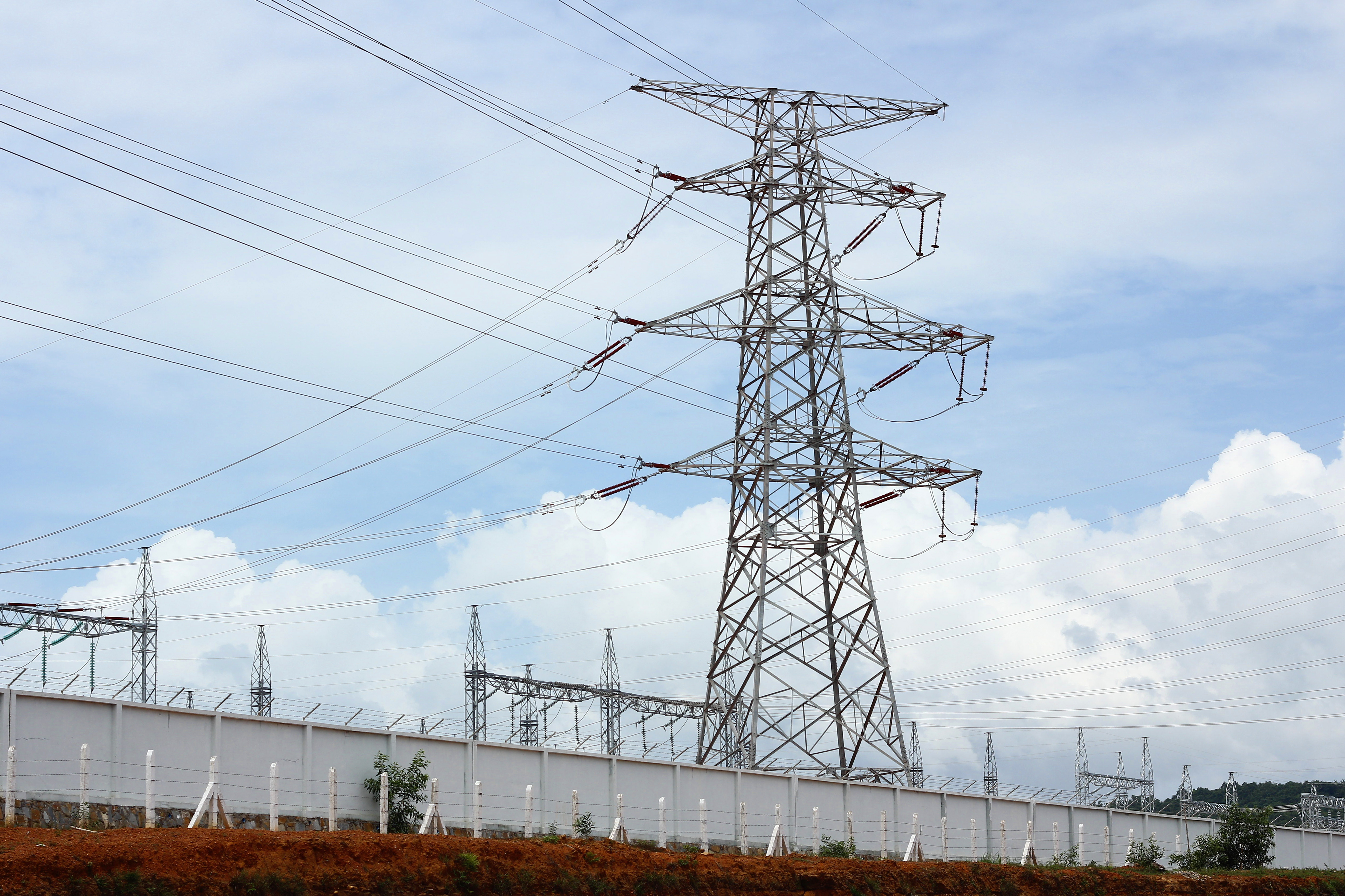 Power lines in Stueng Hav District